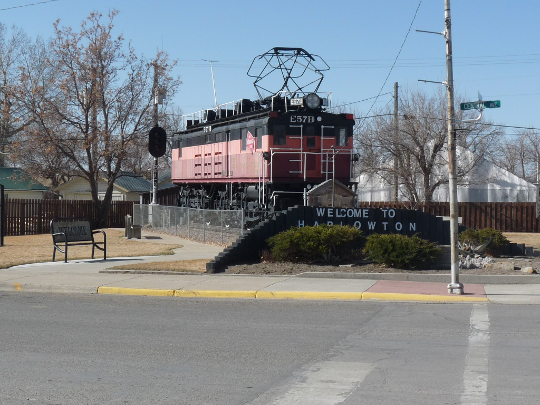 E57B; Harlowton, Montana 300x300 dpi, 1.8x1.4 inches